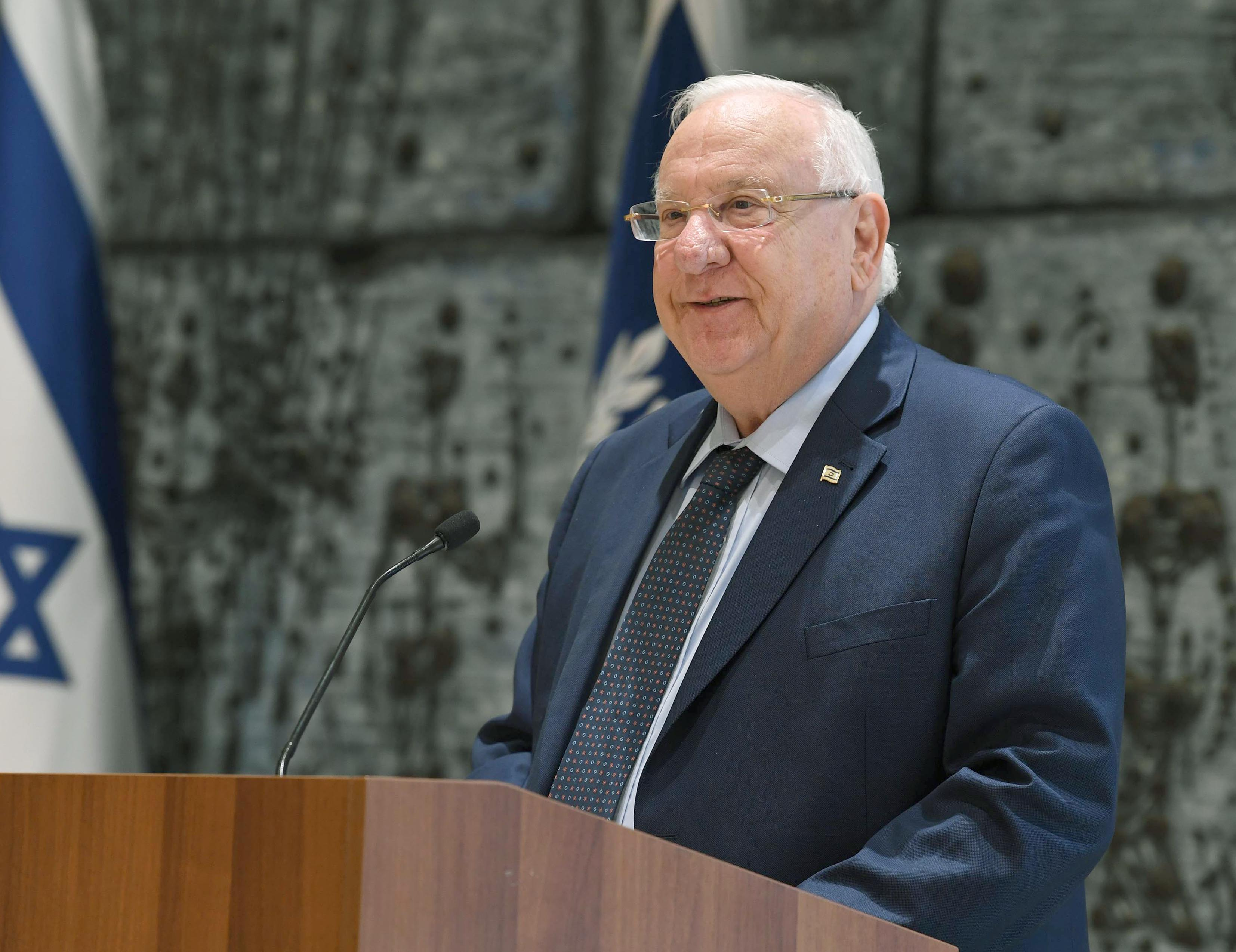 The President of Israel, Reuven Rivlin, and his wife host the Mada VeDaat (science and knowledge) event of the Israel Academy of Sciences and Humanities to mark 70 years of science in Israel. Wednesday, March 14, 2018. Photo Credit: Mark Neyman / GPO.